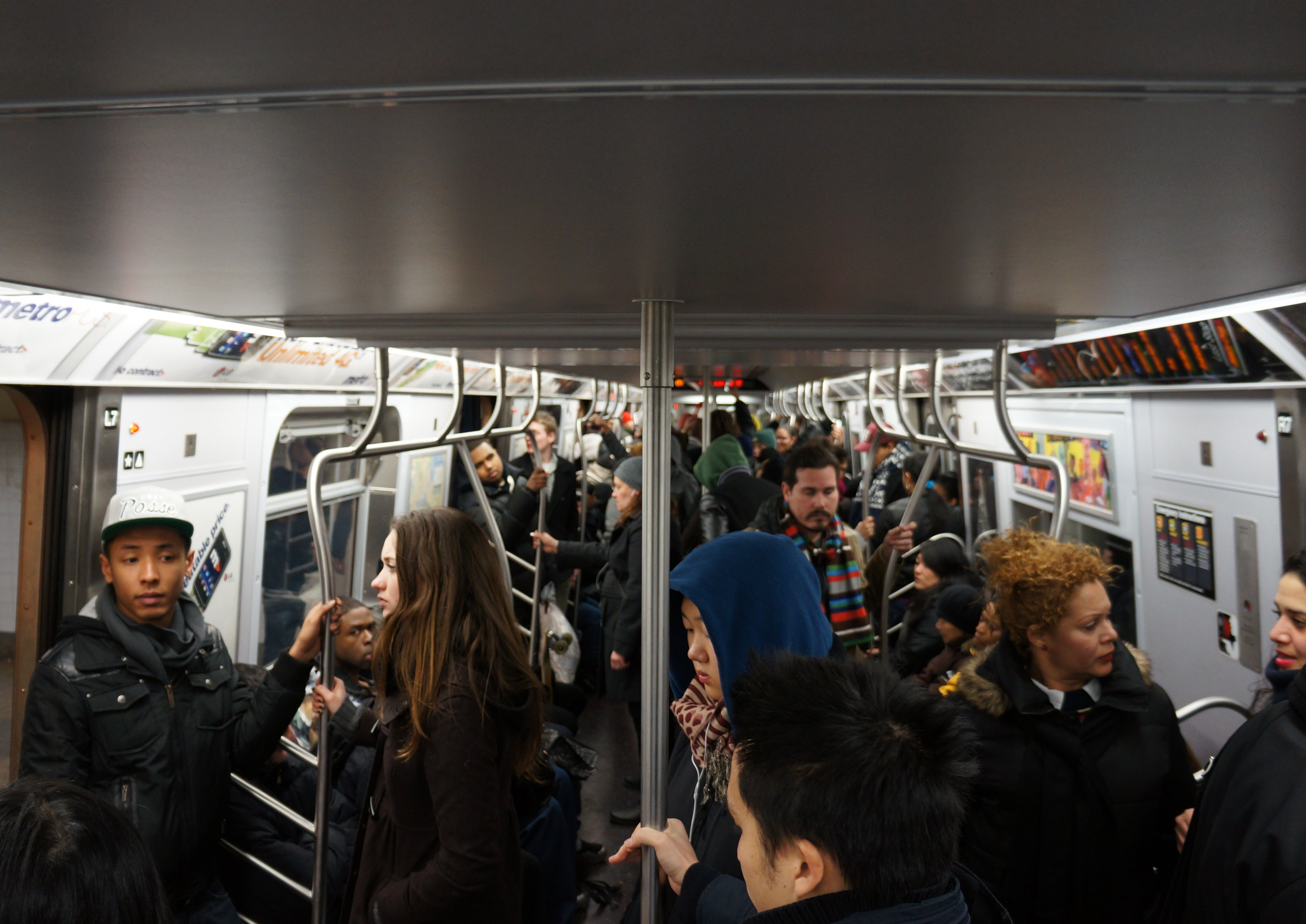 On an uptown F train on a winter Sunday afternoon.